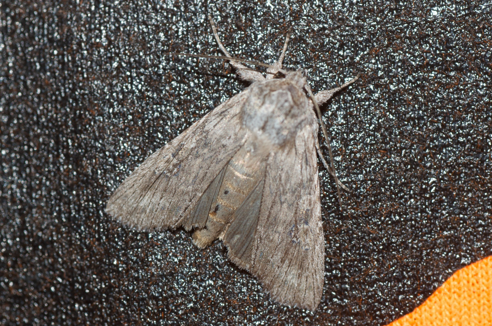 Physetica phricias (Q13504256) image by Jon Sullivan observed via iNaturalist